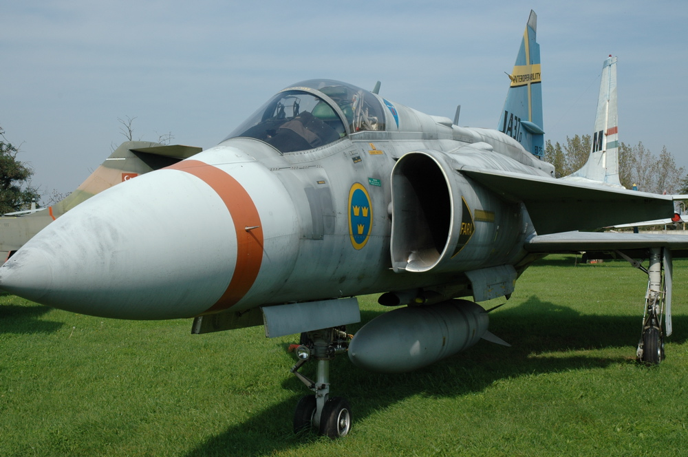 A front view of Saab JA 37D Viggen fighter (displayed at the Museum of Hungarian Air Force, Szolnok)